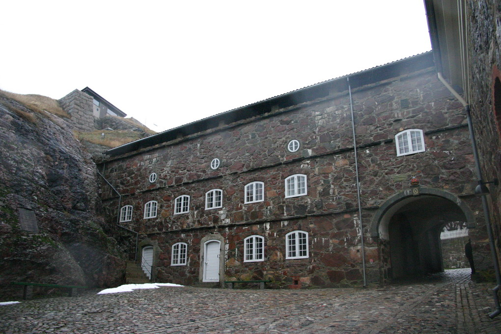 Fredriksten festning, Halden